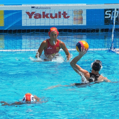 Spanish water polo player